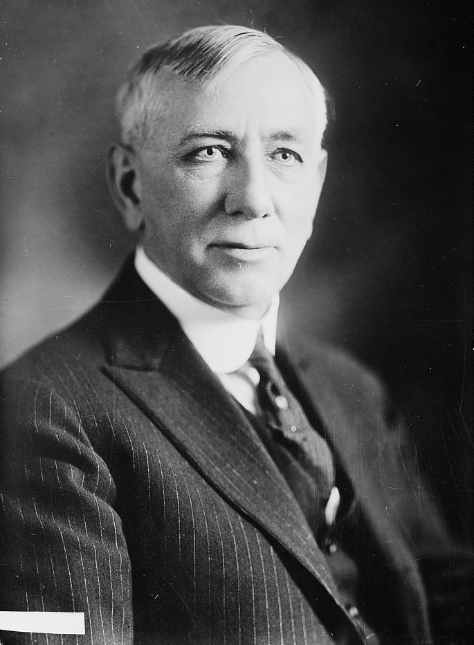 Daniel R. Crissinger, Comptroller of the Currency (1921-23) and chairman of the Federal Reserve Board (1923-27)